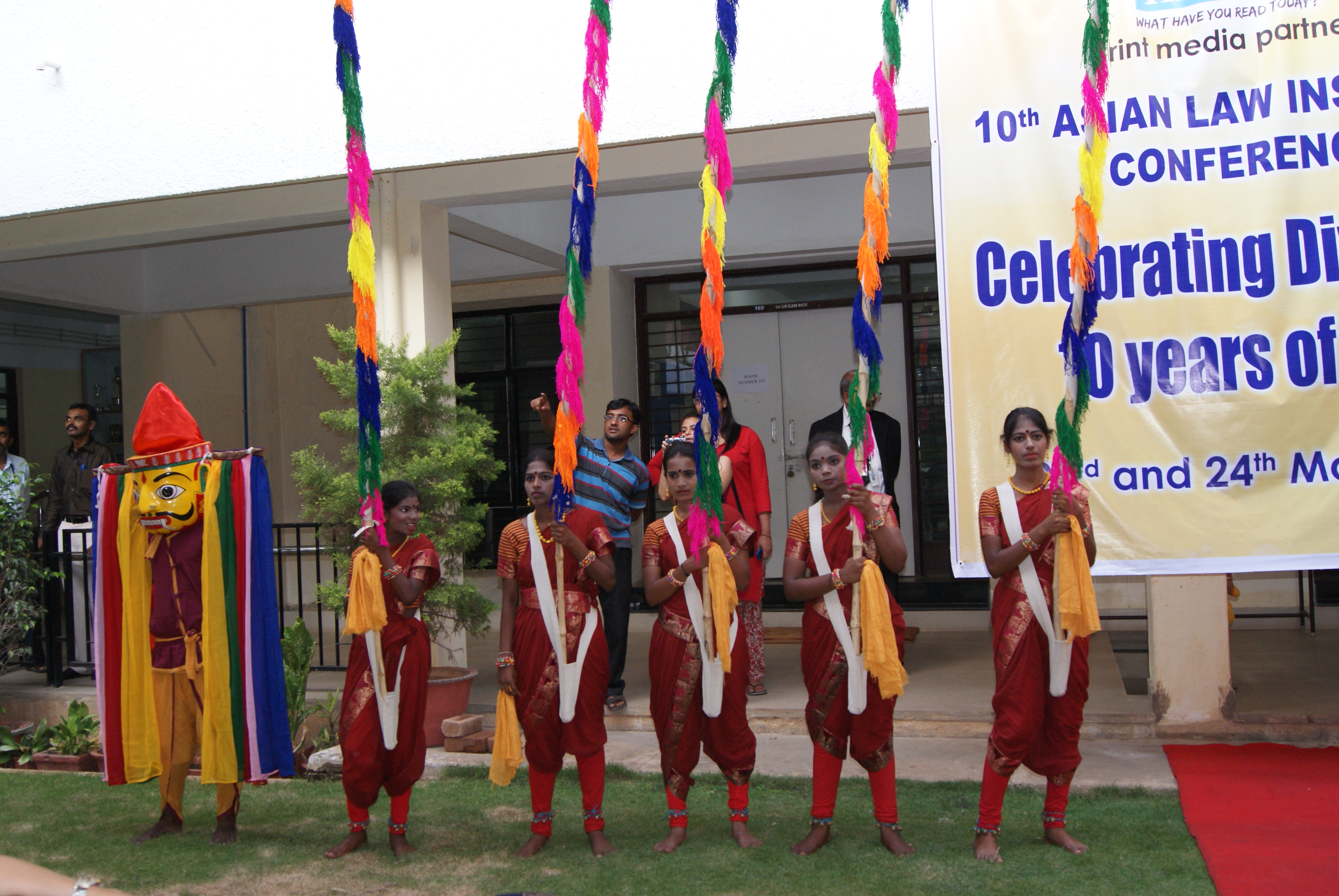 A cultural performance during the 10th Asian Law Institute Conference with the theme "Celebrating Diversity: 10 Years of AsLI" held at the National Law School of India University in Bangalore, Karnataka, India, on 23 and 24 May 2013.